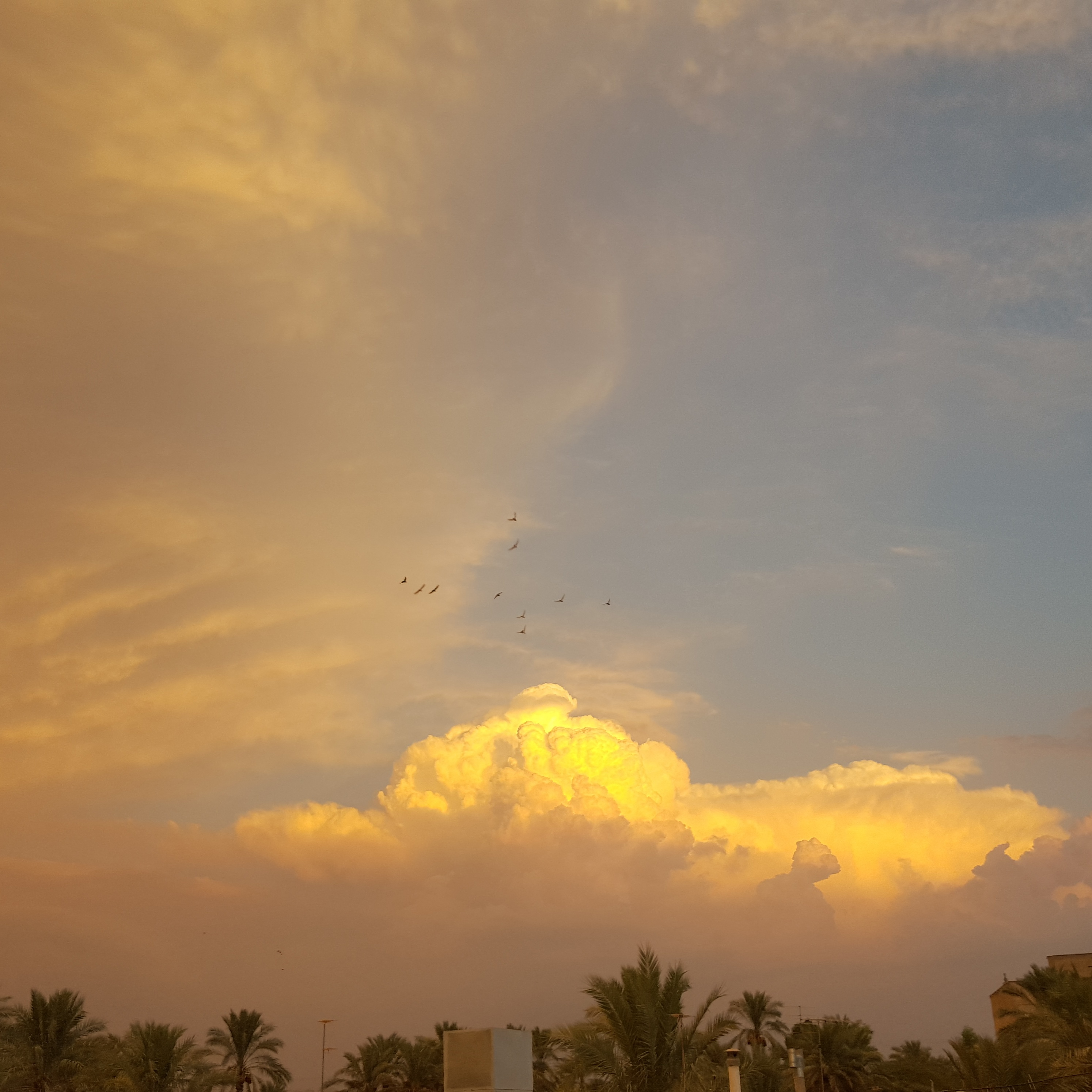 beautiful sky